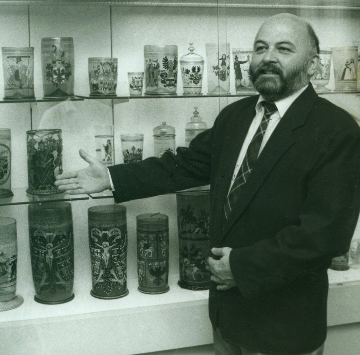 Werner Loibl